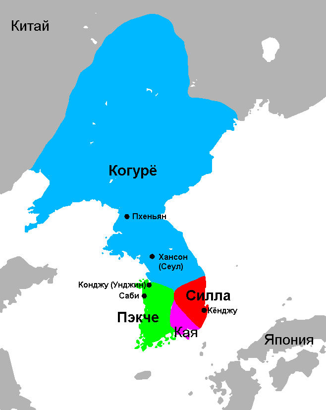 Map of Three Kingdoms of Korea at the end of the 5th century, with the largest expansion of Goguryeo (blue). See Image:Three Kingdoms of Korea Map.png for details. *The source file is an open file